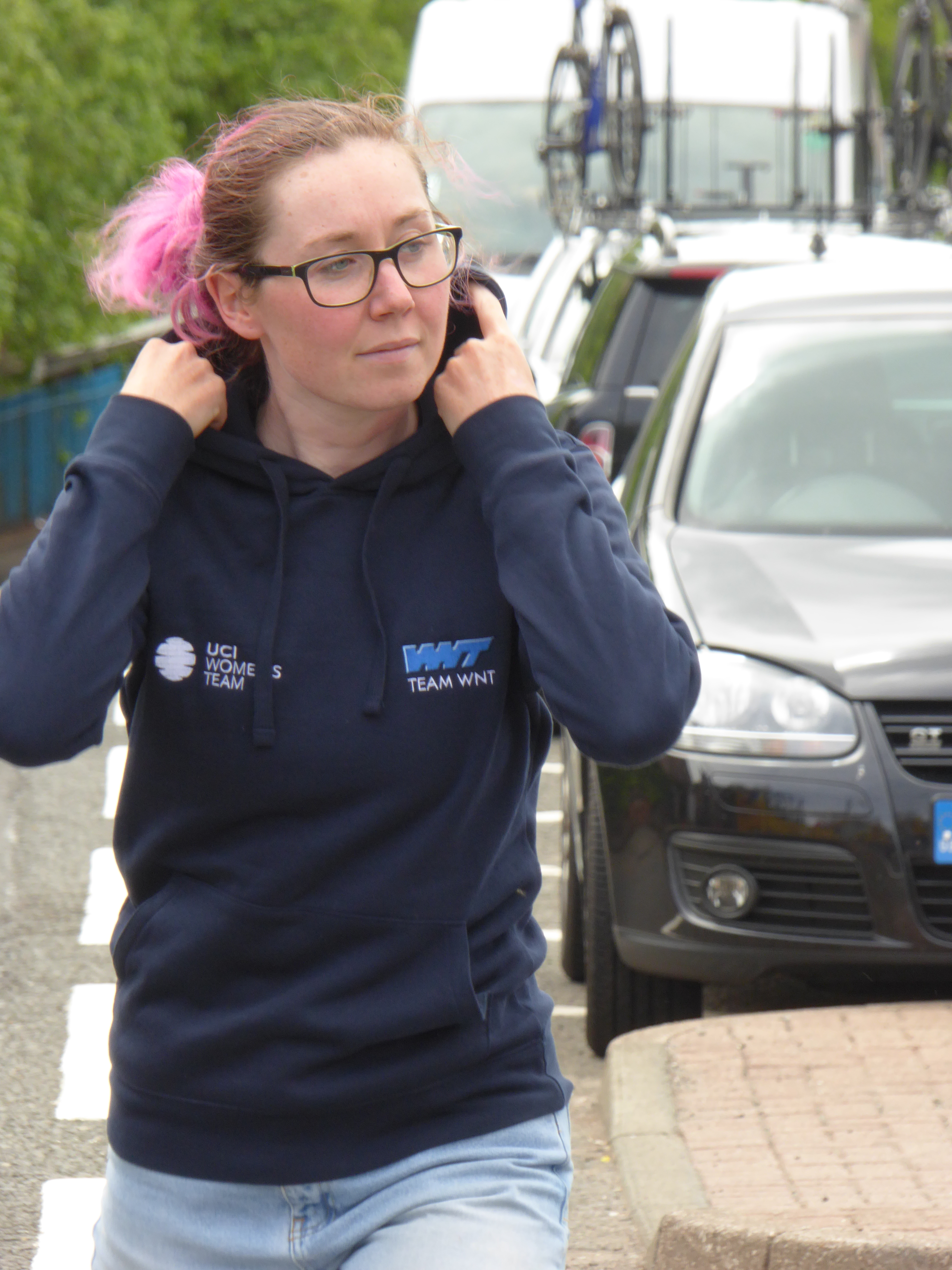 Katie Archibald (Team WNT), prior to Round 7 of the Matrix Fitness GP Series in Motherwell, on 23 May 2017.